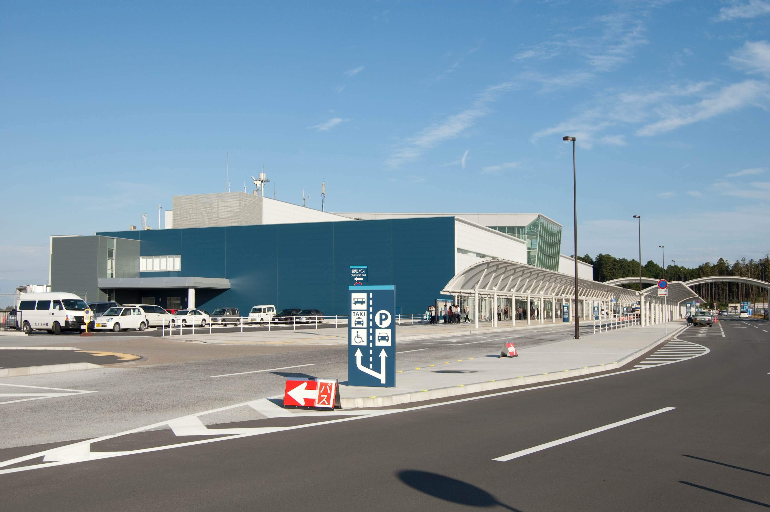 Shizuoka Airport Shimada City and Makinohara City, Shizuoka Prefecture